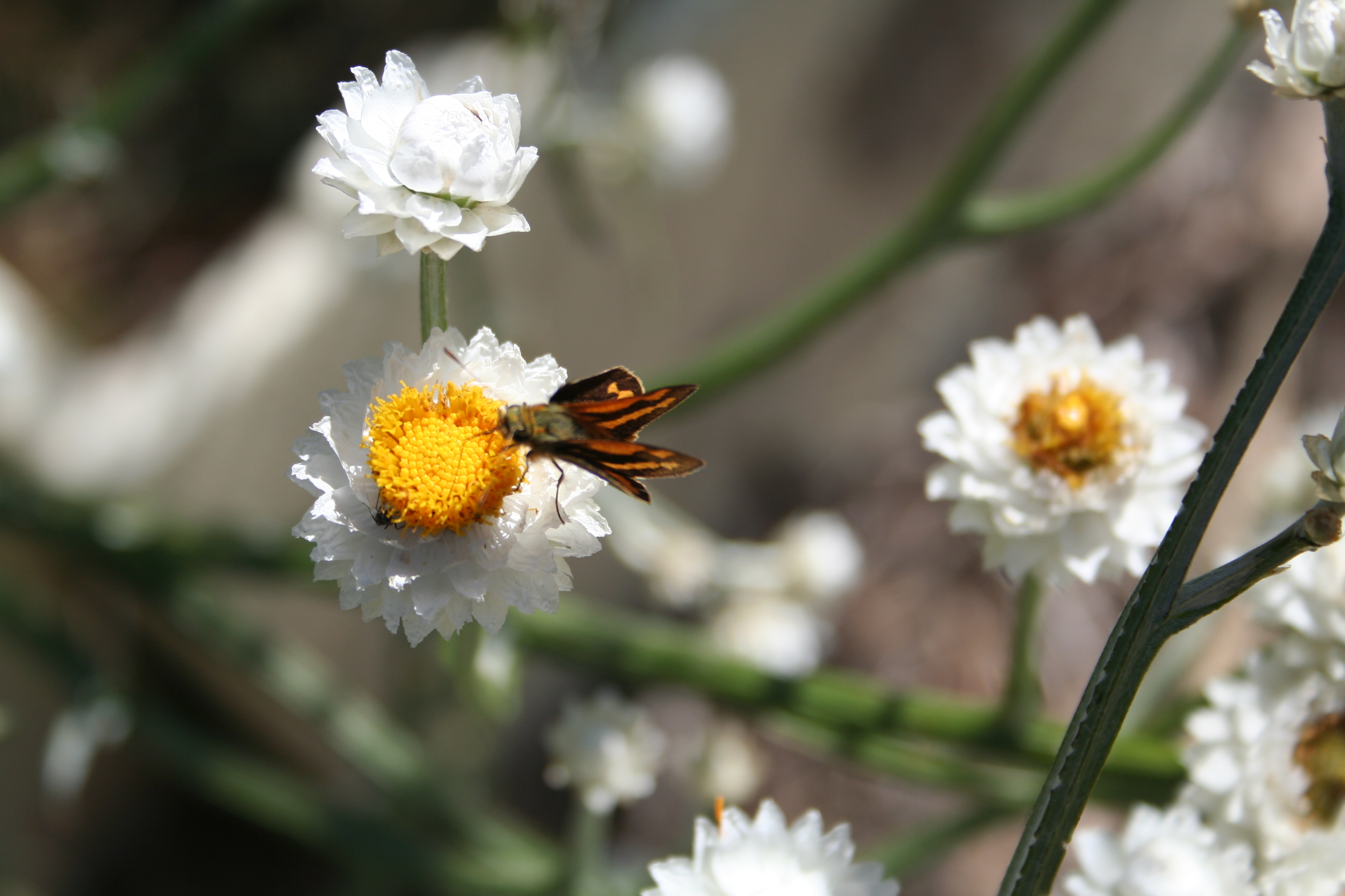 Ammobium alatum with brown skipper butterfly. Taken in my garden in Nov 2006 with a cannon EOS.